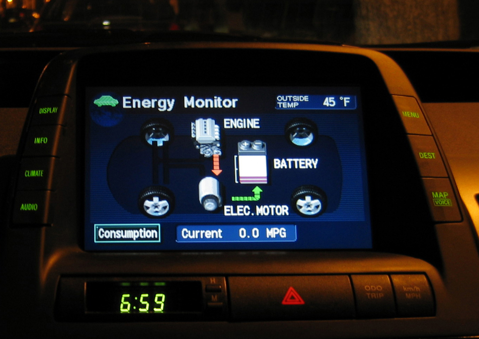 Multifunction display in a 2005 Toyota Prius. The display shows the distribution of energy, showing if, when driving, you're charging the battery using the motor or regenerative braking, or draining the battery, and battery level. This photograph shows a low battery, being charged by the internal combustion engine. The buttons on the sides of the display indicate that this Prius has a built-in GPS unit.